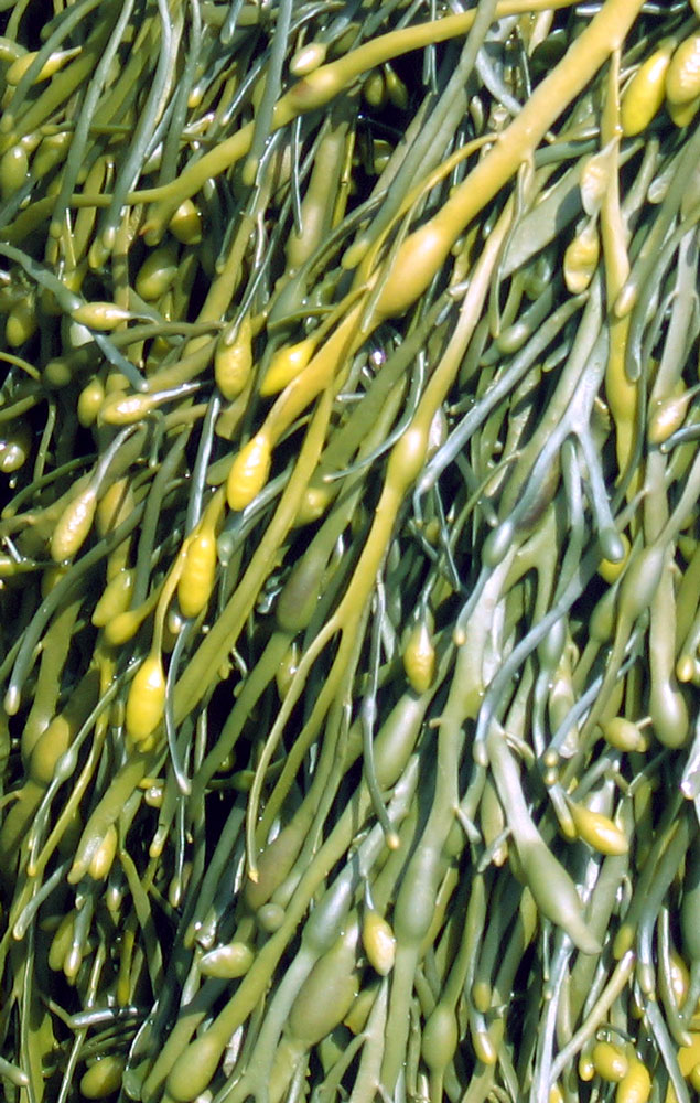 fronds of the brown algae Ascophyllum nodosum